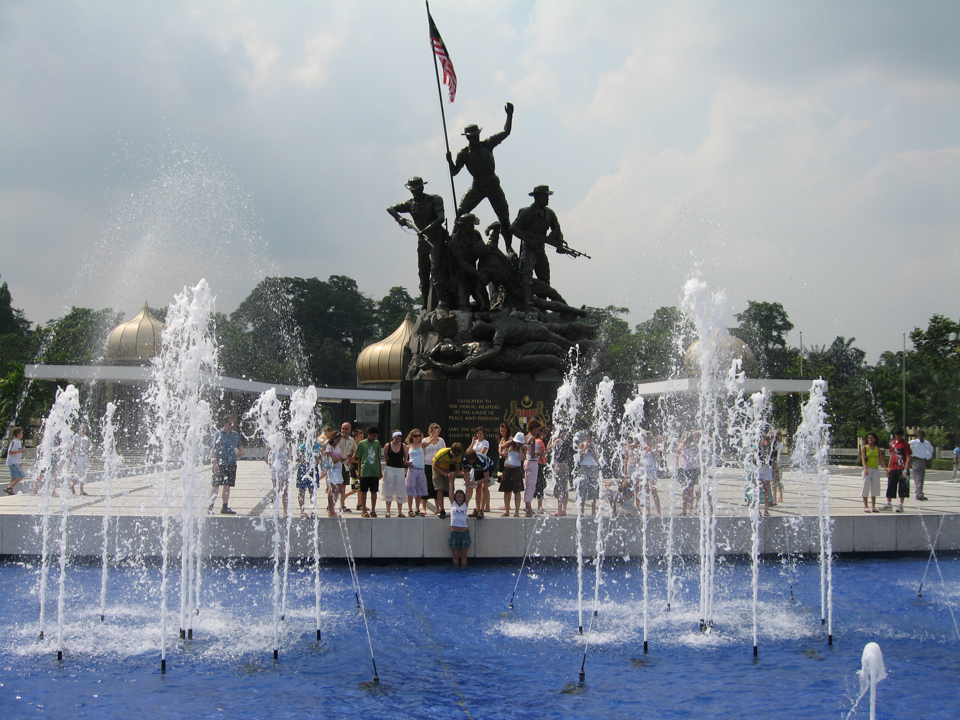 The National Monument of Malaysia. (Kuala Lumpur)